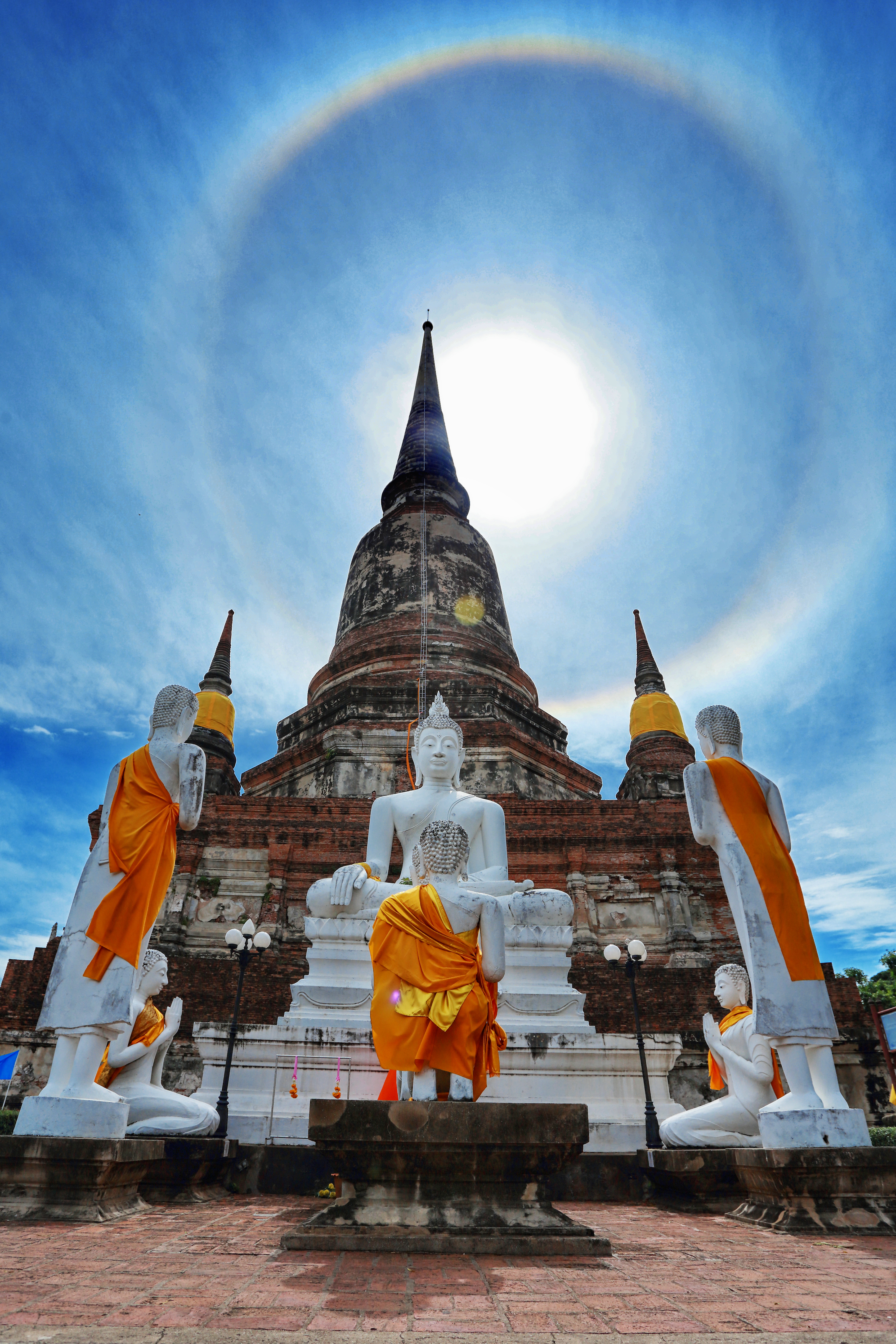 Wat Yai Chai MongkhonTiếng Việt: Wat Yai Chaimongkhon